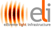 eli logo